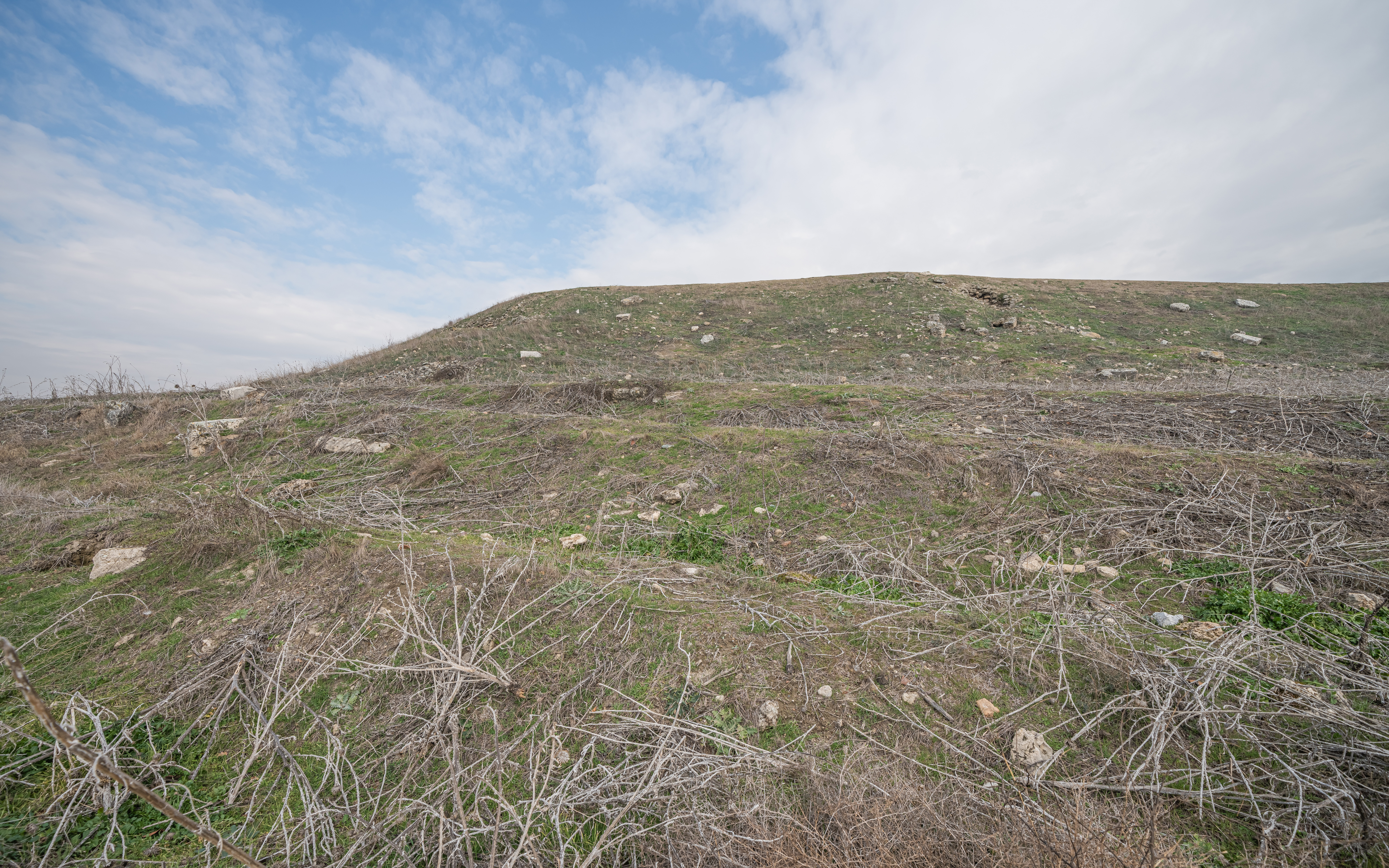 Acropolis of the ancient city of Colossae near Denizli, Turkey